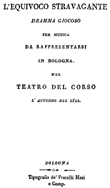 Gioachino Rossini - L’equivoco stravagante - titlepage of the libretto - Bologna 1811